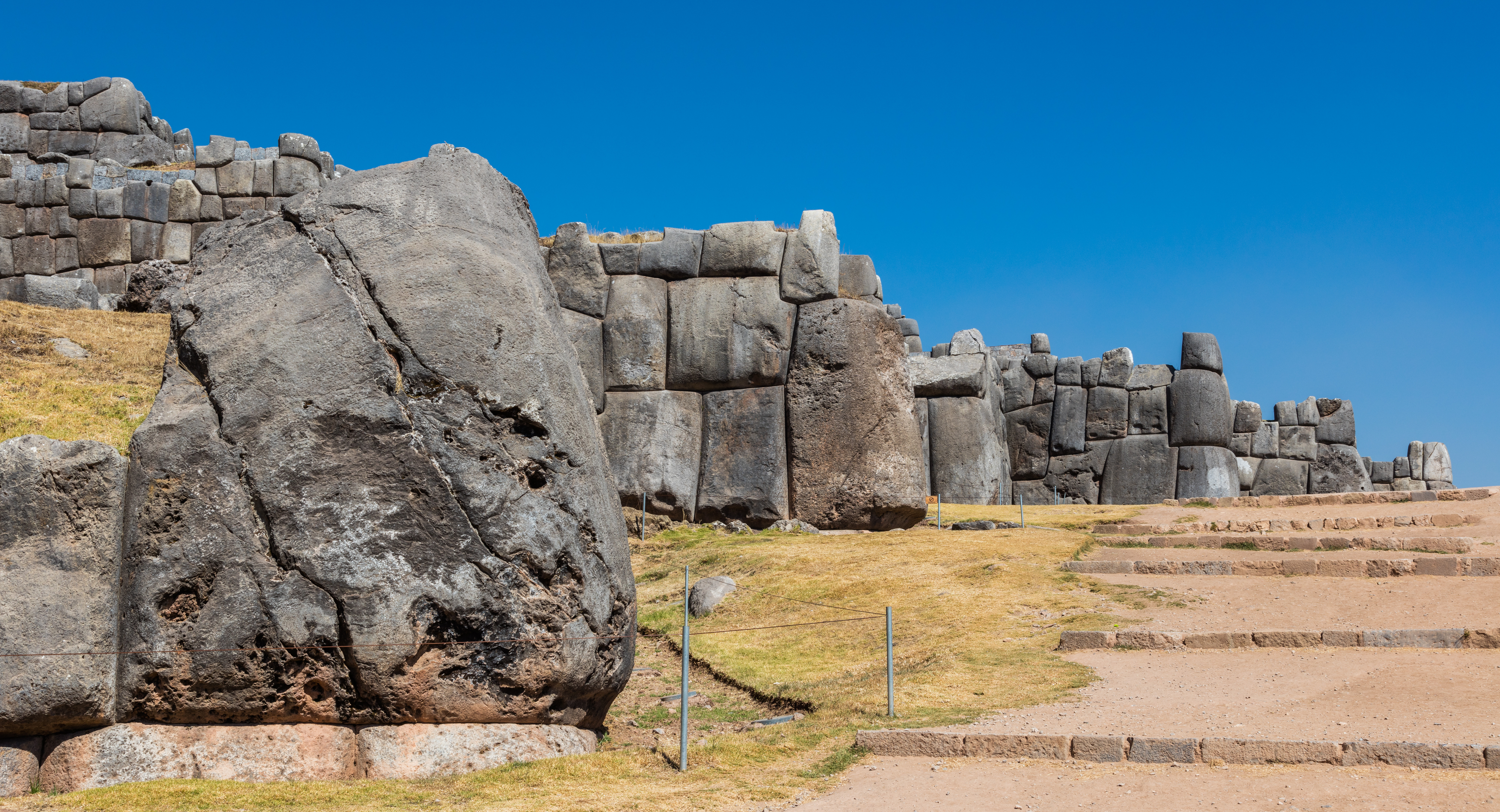 View of a row of corners of the walls of Saksaywaman, a citadel on the northern outskirts of the city of Cusco, historic capital of the Inca Empire, today Peru. The first sections of the citadel were first built by the Killke culture about 1100 and expanded by the Inca from the 13th century. The dry stone walls are composed of huge stones, which boulders are carefully cut by workers to fit them together extremely tightly without mortar.